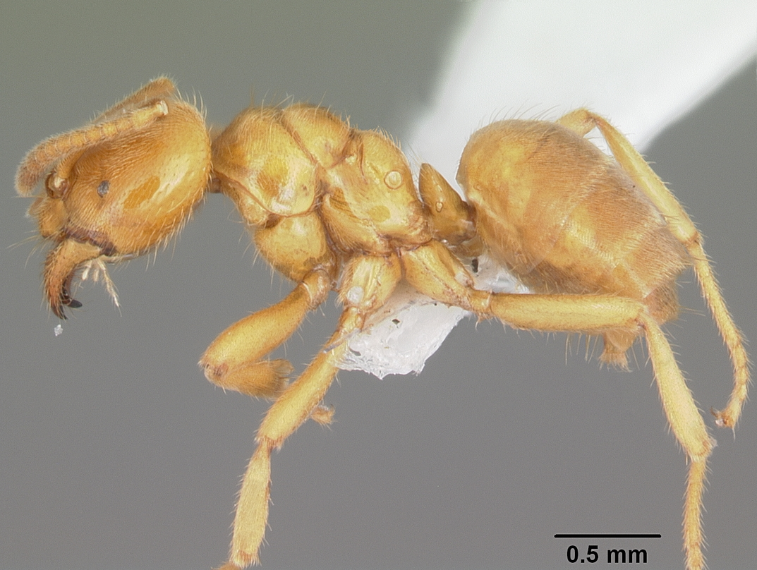 Profile view of ant Acropyga bakwele specimen casent0104123.